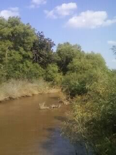 Washita River at Washita Massacre site. Vicinity where Chief Black Kettle was killed.